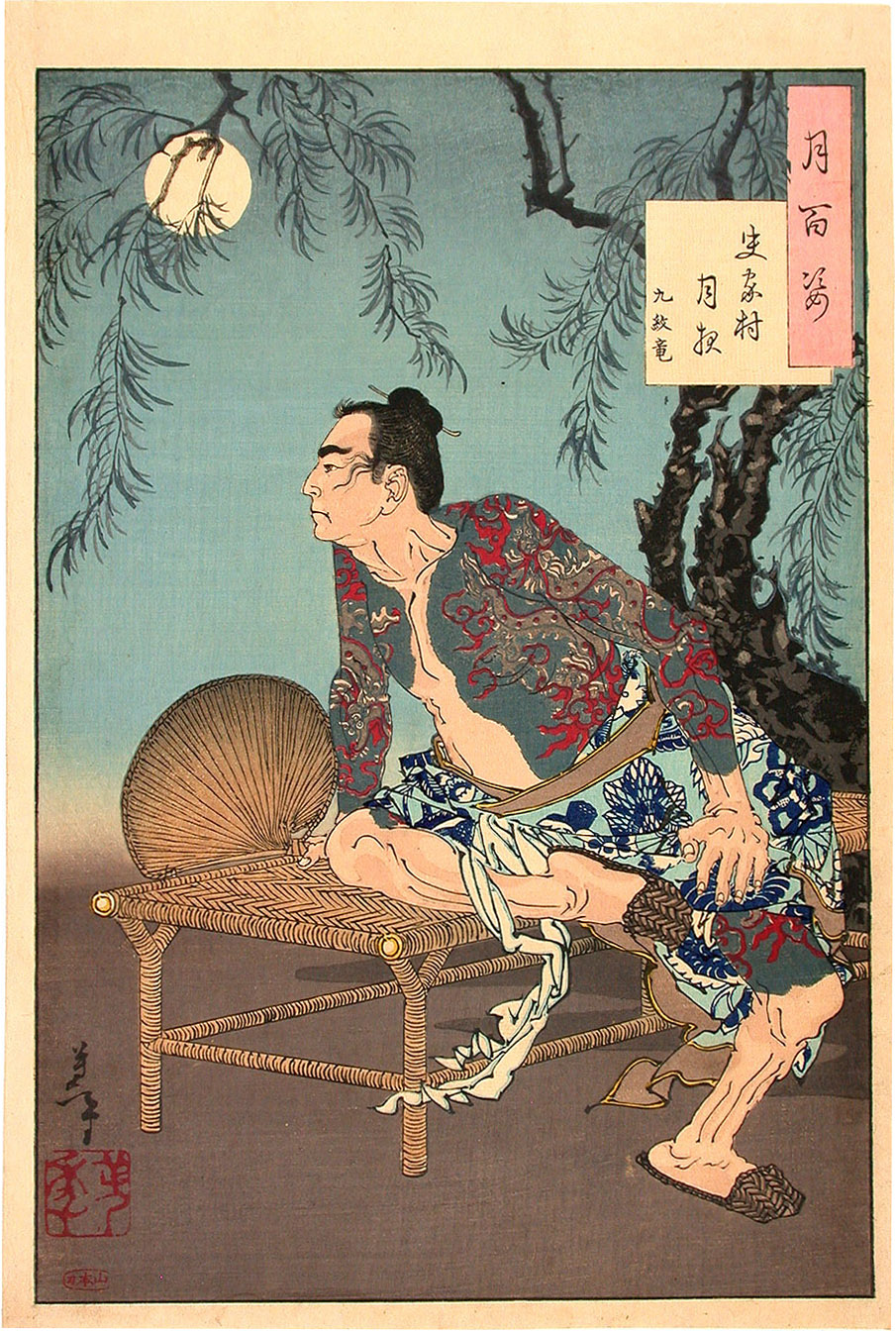 The village of the Shi clan on a moonlit night (Shikason tsukiyo)